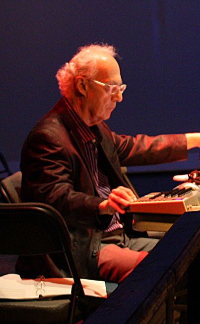 28sept12: David Behrman Ensemble live during the 2012 Sonic Circuits Festival, Atlas Performing Arts Center, Washington DC.